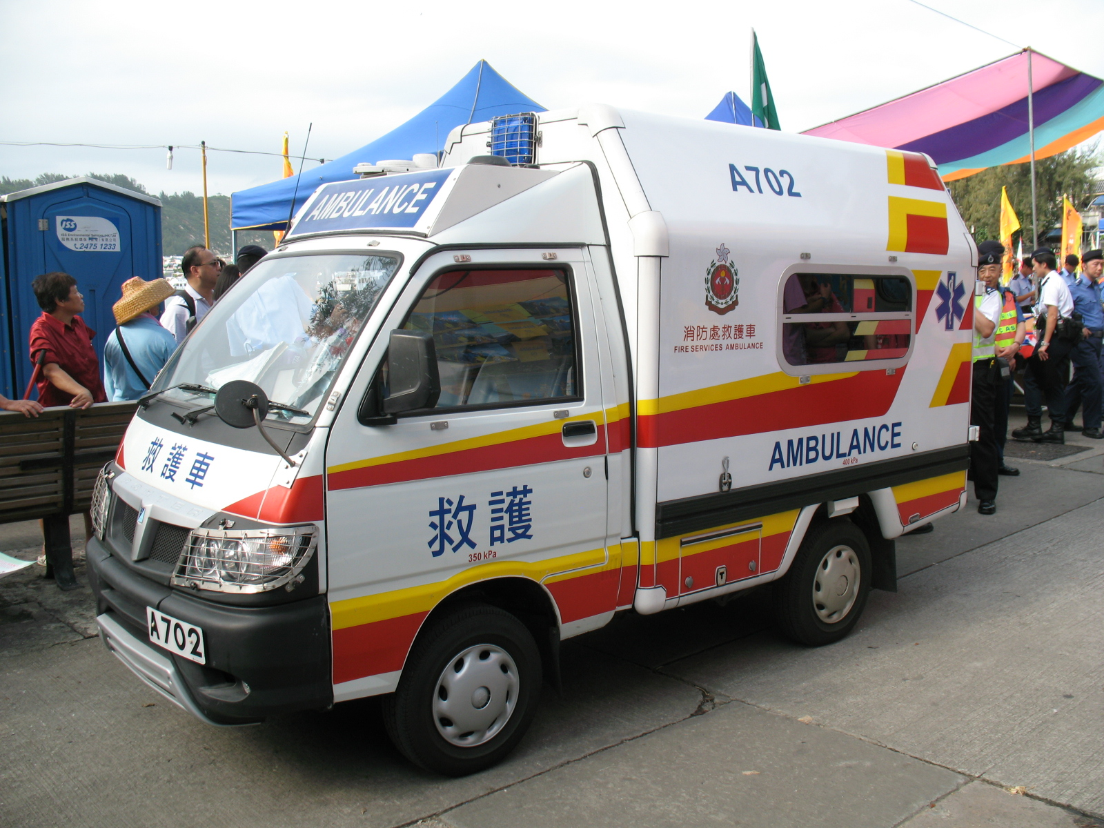 Village Ambulances for Hong Kong Fire Service Department, ambulances No.702 at the Cheung Chau. 中文（香港）: 消防處旗下最新鄉村救護車車種，此車駐守於長洲消防局，編號A702，車型是由皮亞焦波打小型貨車改裝，和配備香港製造之救護車車身組裝而成。